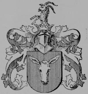 Coat of arms Półkozic from Księga herbowa rodów polskich by J.K. Ostrowskiego